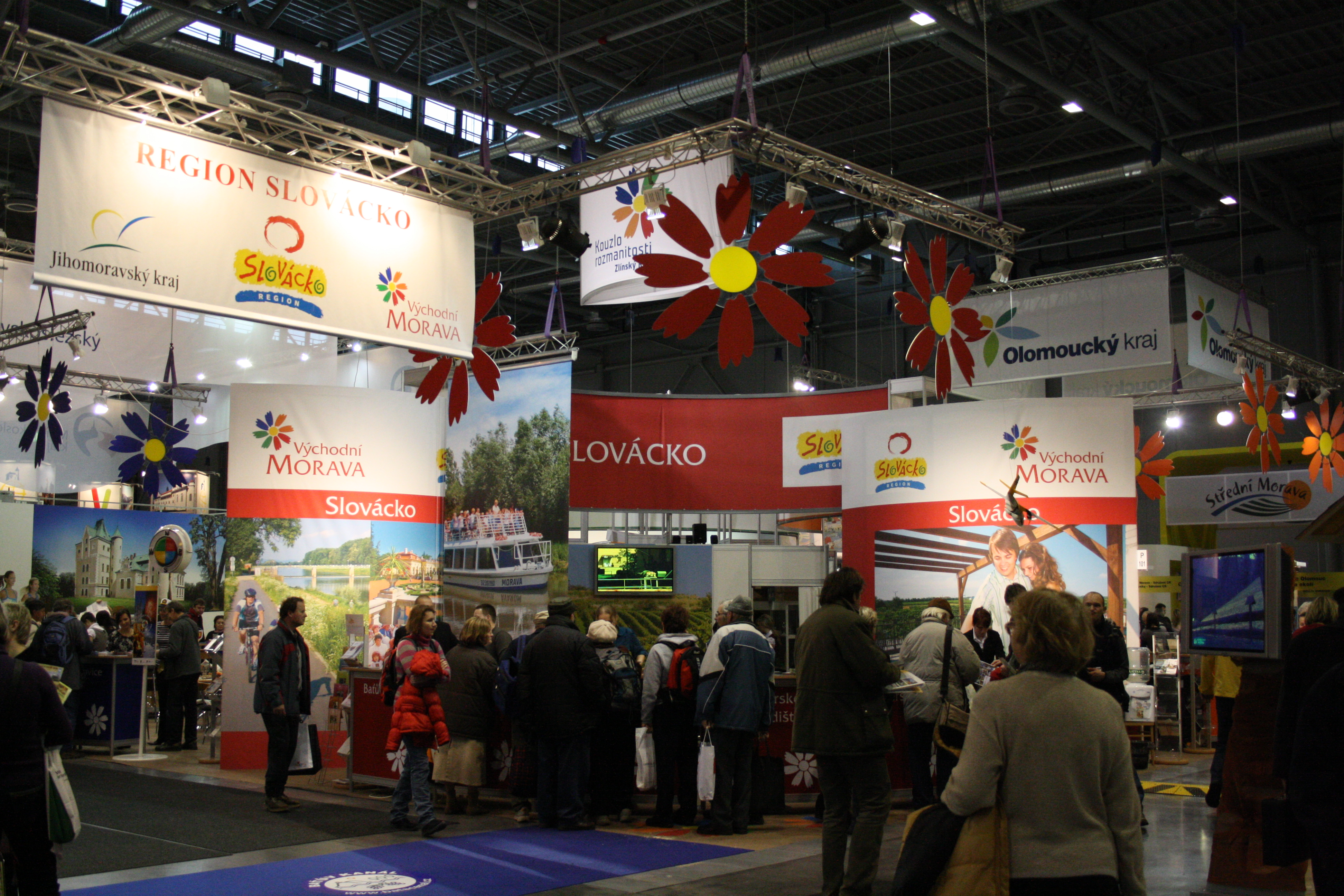 Presentation of various touristic destinations of Czech Republic.